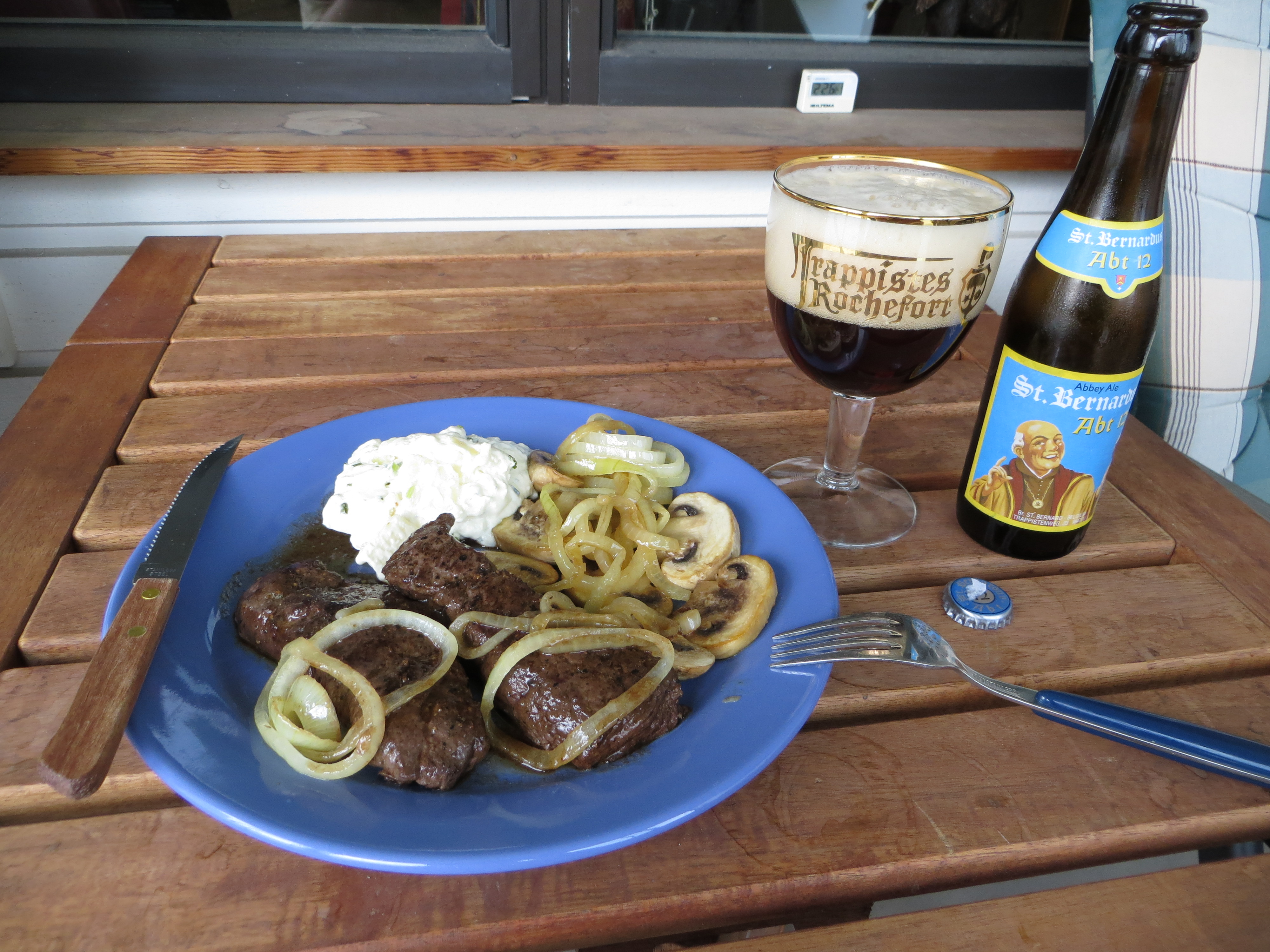 Norway whale steaks served with potato salad and fried onion and mushroom. Recipe (2 persons) 1 onion 3-4 mushroom 500 g whale meat soy sauce balsamic vinegar pepper Cut the meat up in serving size of about 2 cm thickness. Dry the meat with a paper napkin or towel and rub in pepper. Heat up a frying pan with oil and fry the pieces for a minute on each side, while frying them sprinkle the pieces with soy sauce and balsamic vinegar. When done, take out the meat and put on a plate for later. Add a cup of water to the used pan and boil it for a few minutes to create a sauce. Put this in a small kettle to keep warm and rinse the pan. Cut up the onion in rings and the musroom, add some butter to the frying pan and fry the onion until it starts to turn soft. Then add the mushroom and cook this for 5 minutes. Take out the mushroom and onion and put it in a serving bowl. Then add some more butter, turn up the heat. When the butter is boiling add the meat for a quick frying, about half a minute on both sides. The important thing is not to overcook the meat, we want it red inside. Now all is ready. Serve the meat with a potato salad and the fried onion and mushroom. Pour some of sauce over the meat.